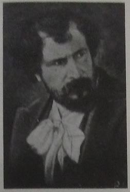 Ritratto di Giulio Moschetti